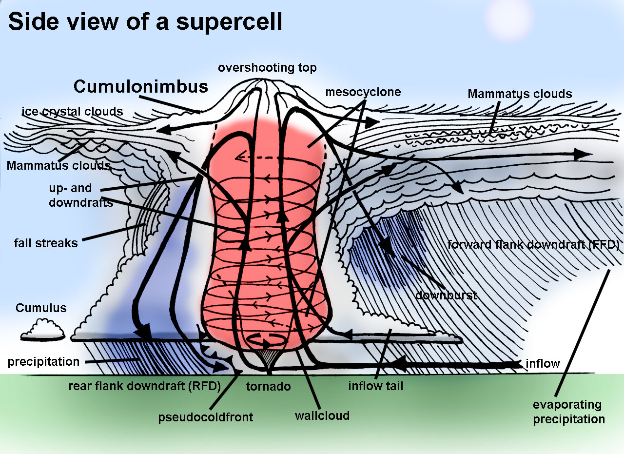 side view of a supercell thunderstorm